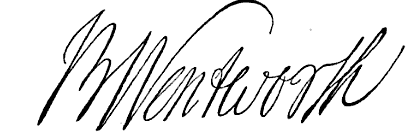 Signature of Benning Wentworth